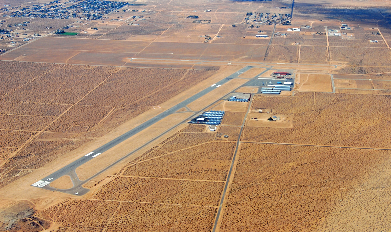 Apple Valley Airport